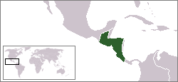 Location map of the United Provinces of the Center of America